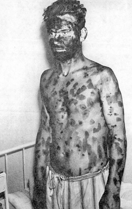 A person infected with smallpox during an epidemic in Wrocław, Poland in 1963